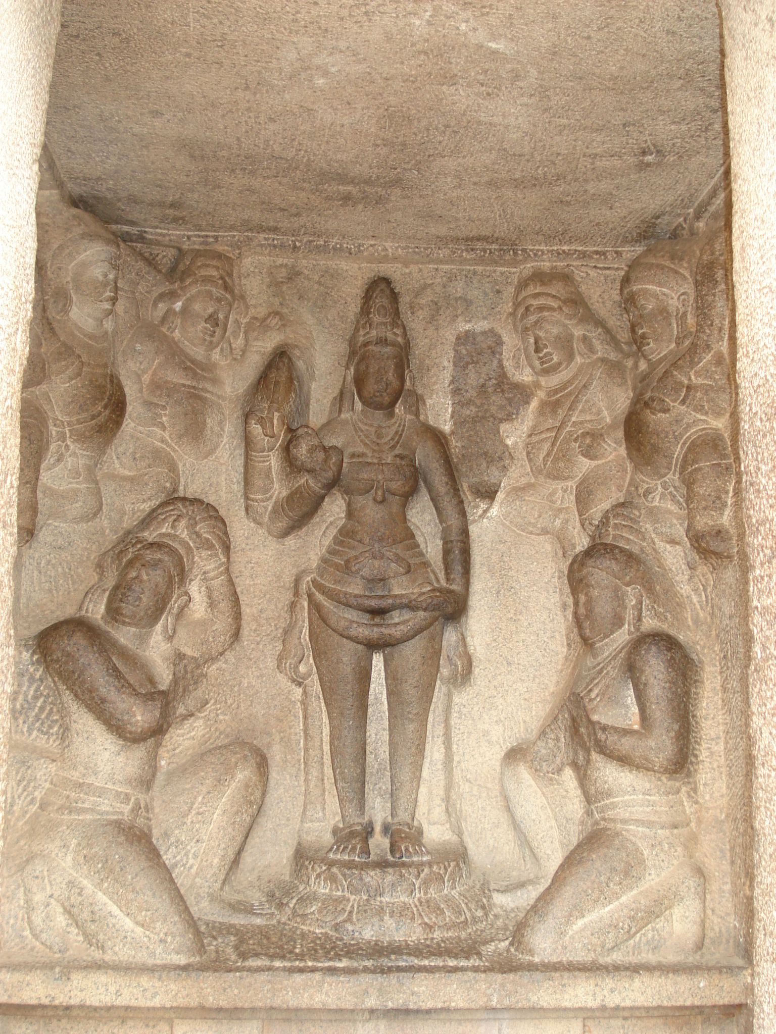 Draupathi Ratha